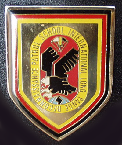 Former internal military unit badge ("internes Verbandsabzeichen") of the International Long Range Reconnaissance Patrol School (ILRRPS), at last in Pfullendorf, Germany.